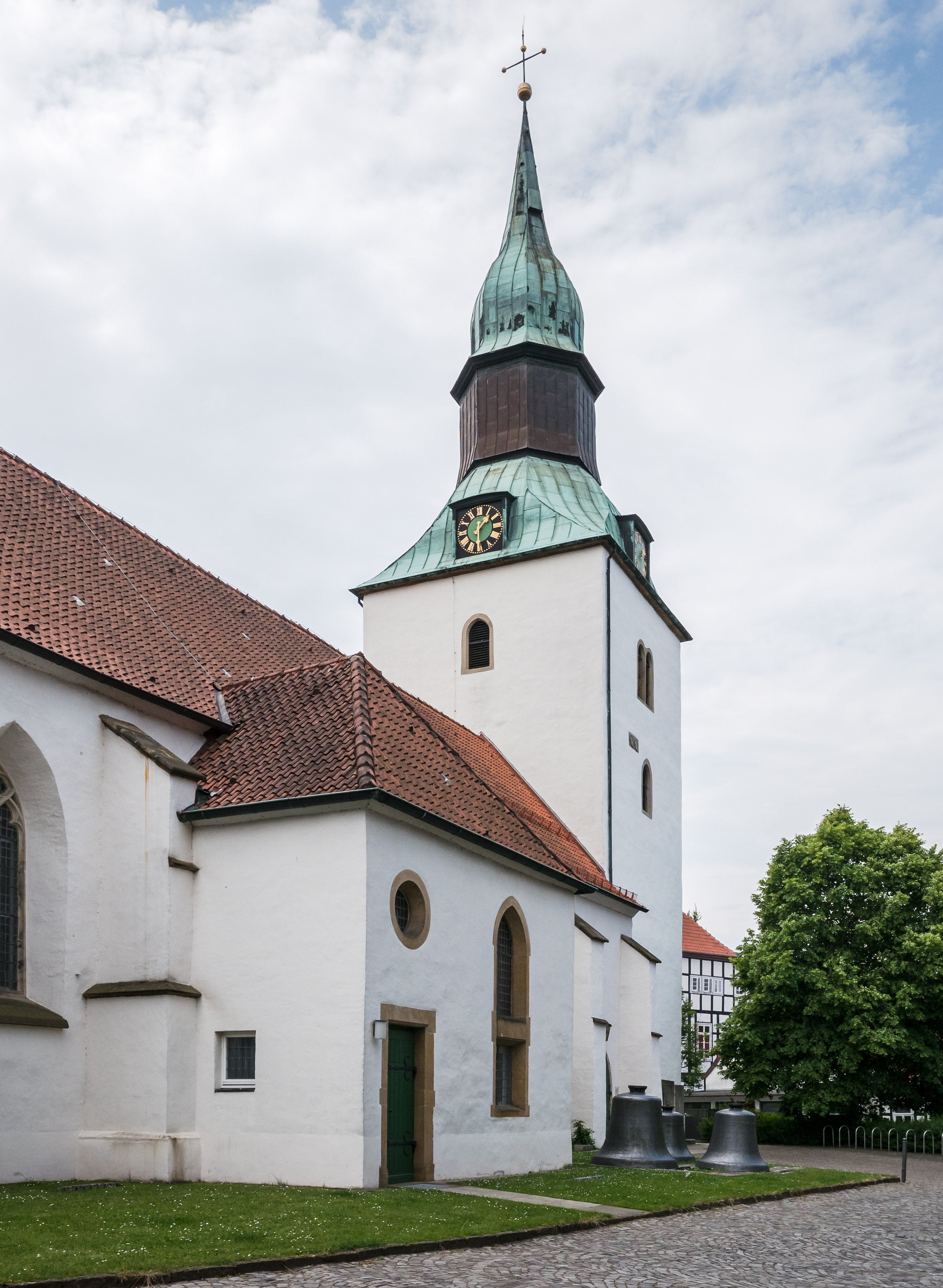 St. Nicholas church in Bad Essen. Osnabrück Land, Lower Saxony, Germany